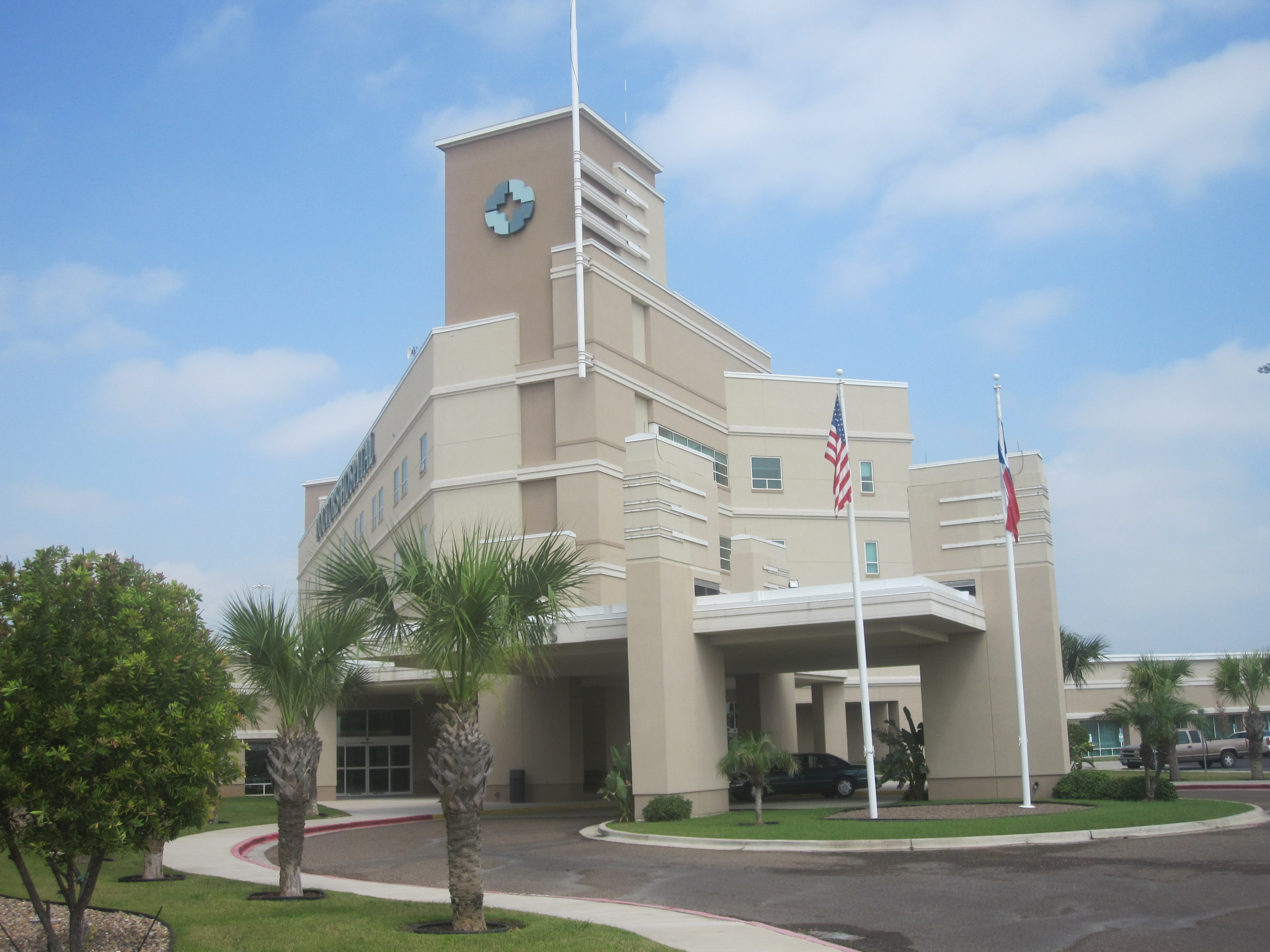 I took photo with Canon camera at Doctor's Hospital, Laredo, TX.